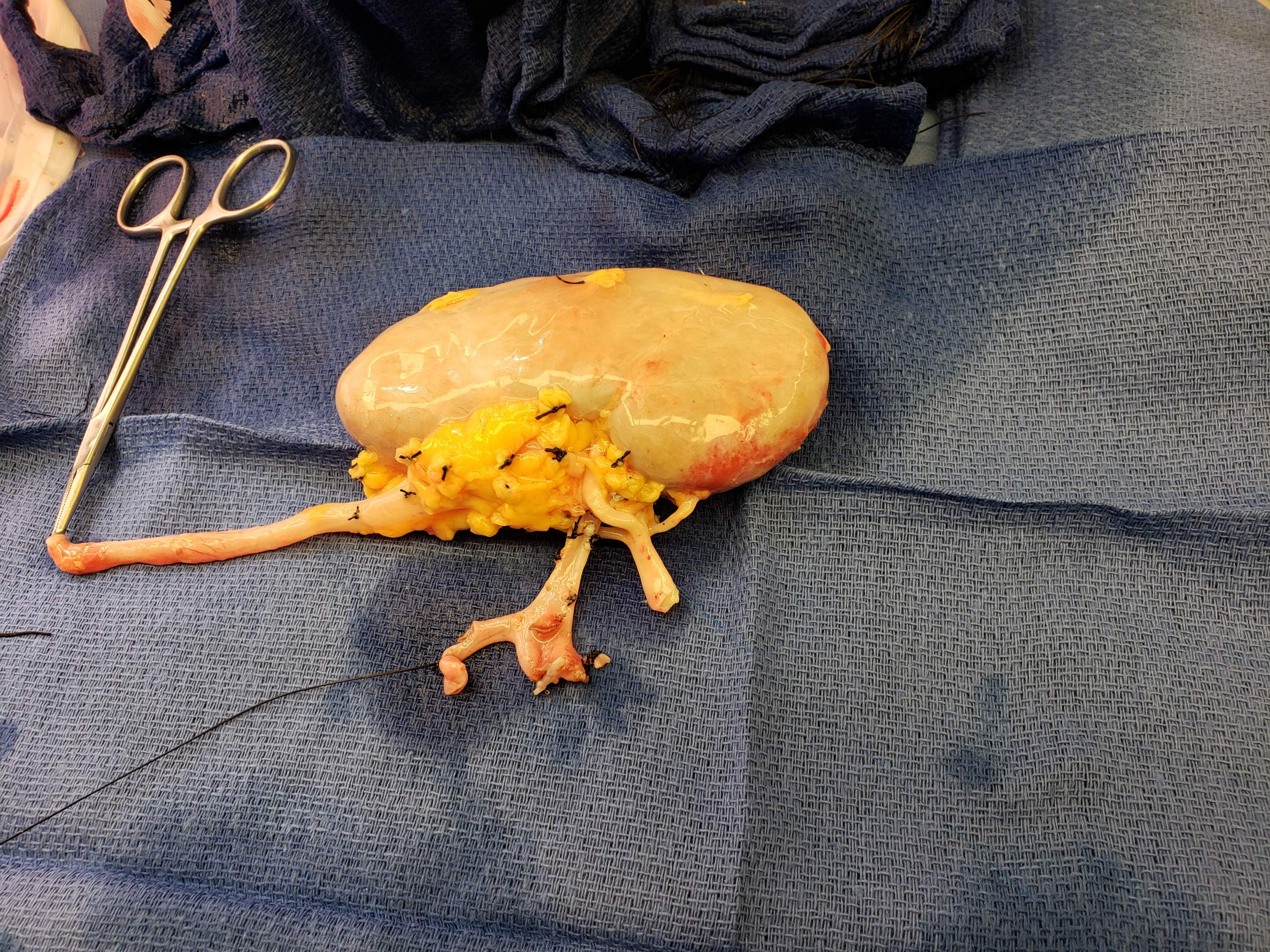 Kidney removed from live donor and transplanted 18 June 2019